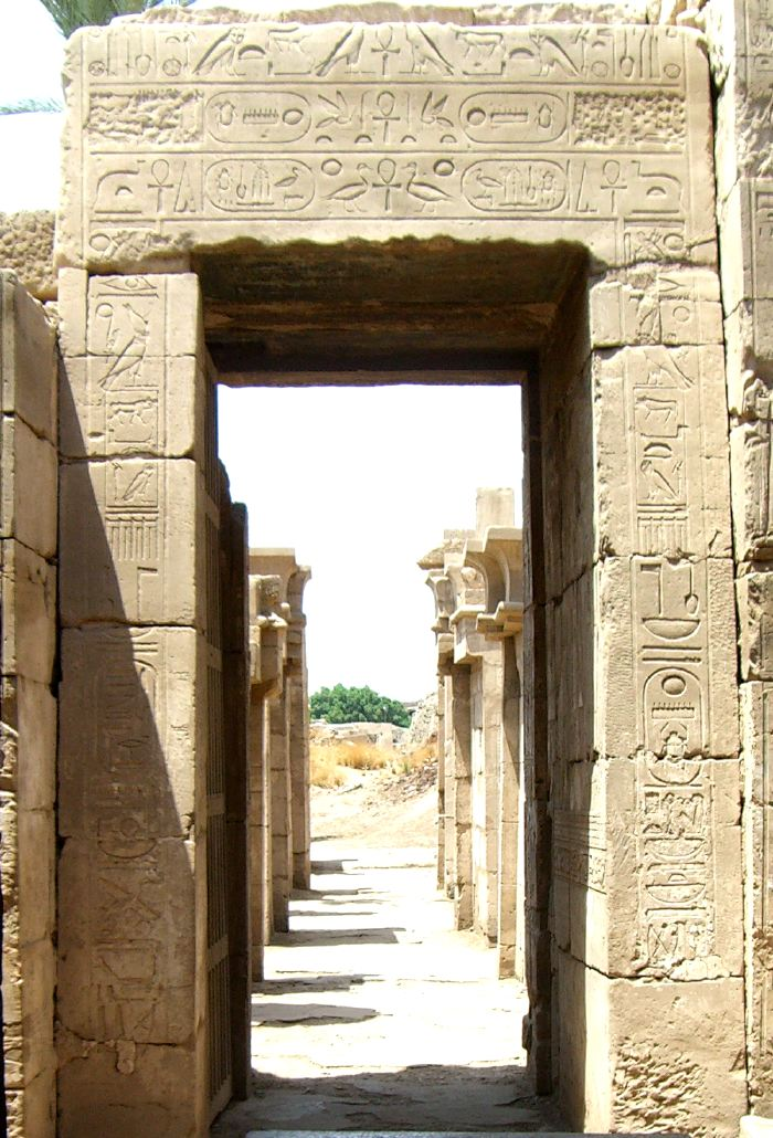 View since the sanctuary of doors in rank of temple Karnak of Ptah - On the first door, the right side and the lintel are inscribed with the names of Thutmosis III and on the left side with those of Takelot II.